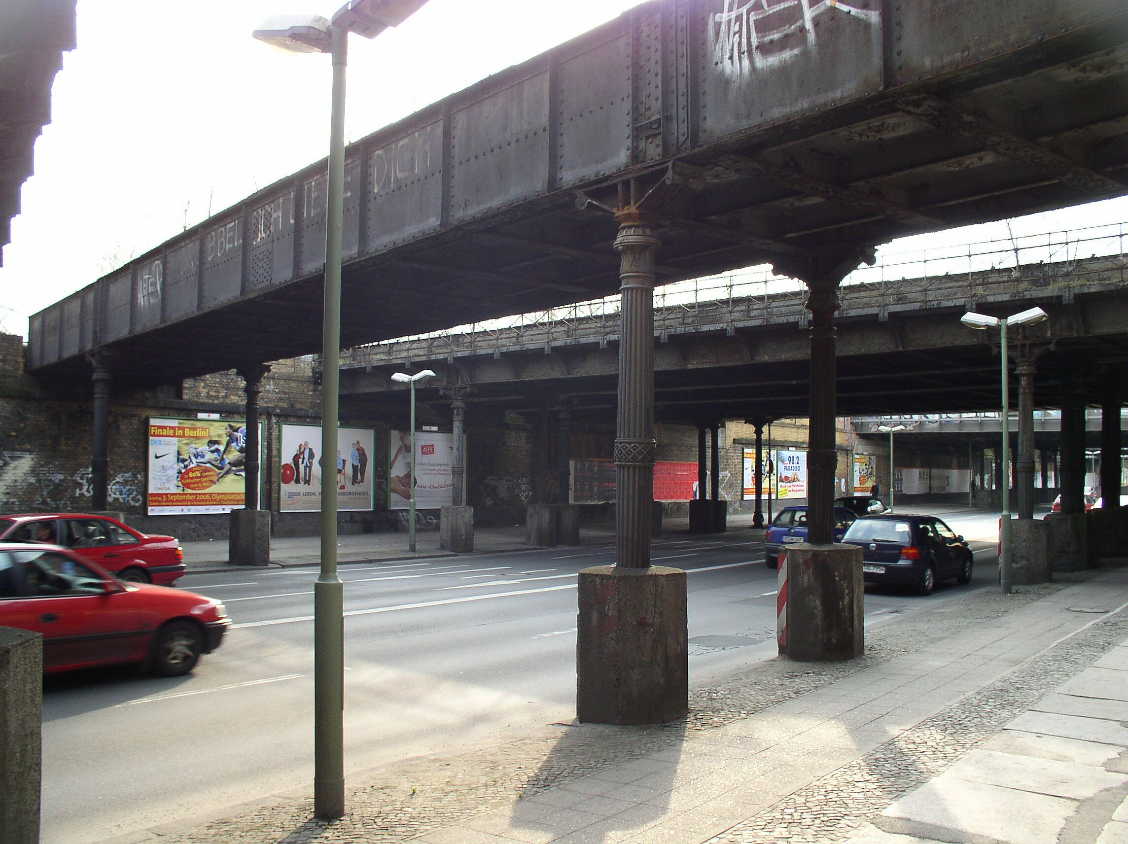 Yorckbrücken at the Yorckstraße in Berlin